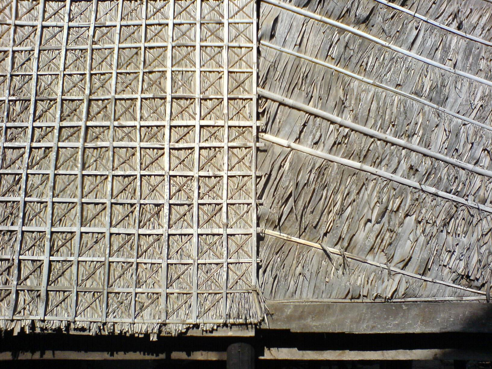 Thatched wall cladding — Traditional Khmer house in Cambodia.